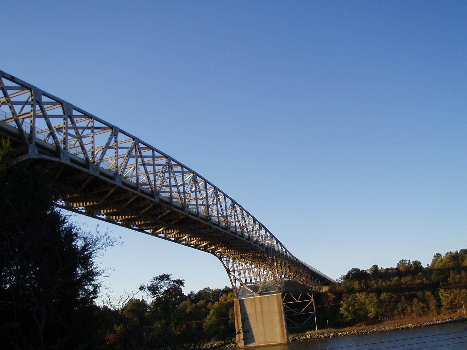 Summit Bridge over the C&D Canal.